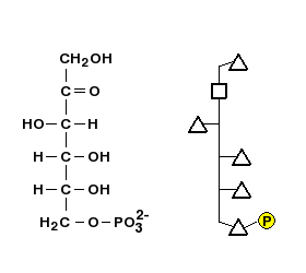 Fructose